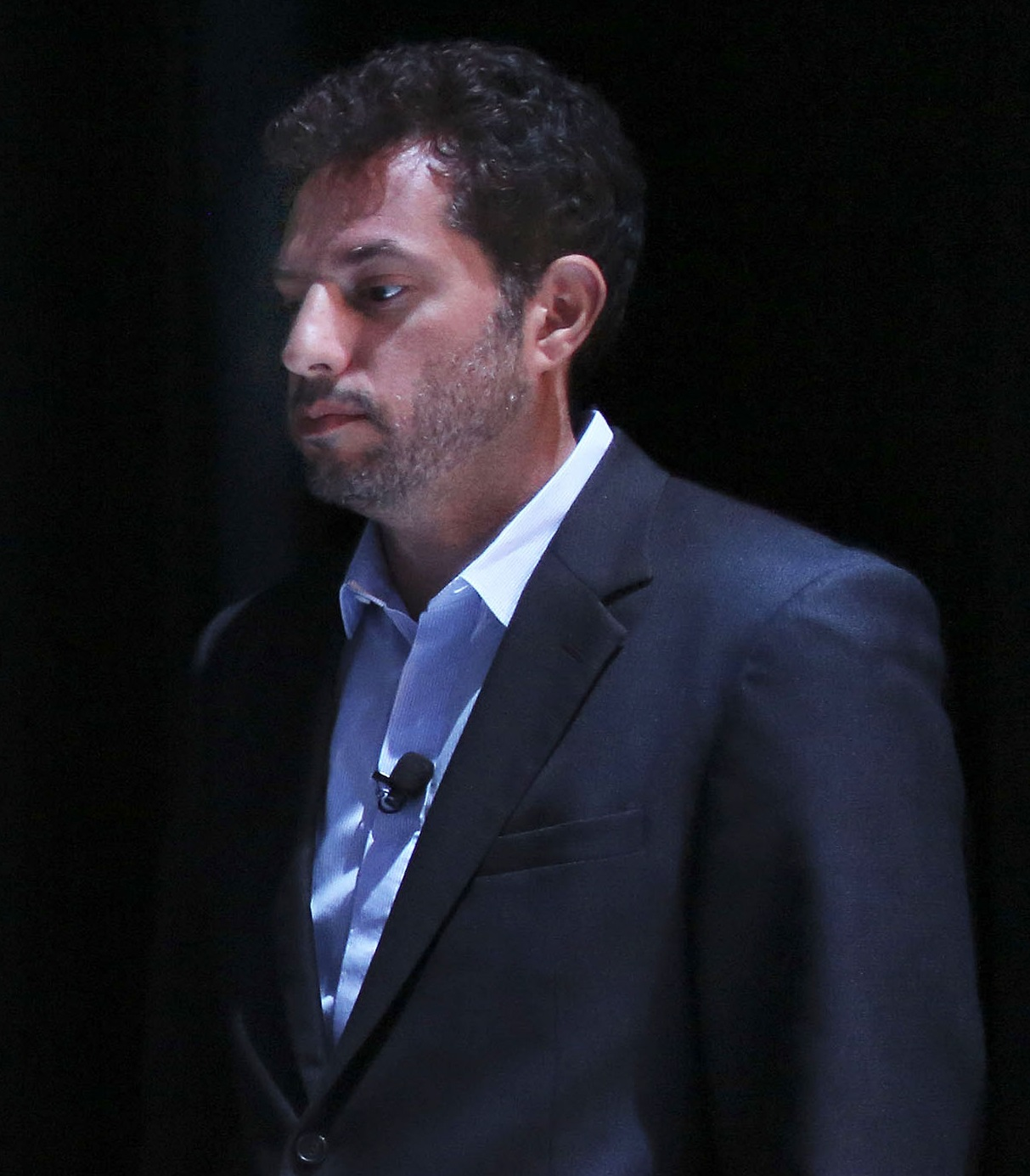 Cropped image of Guy Oseary